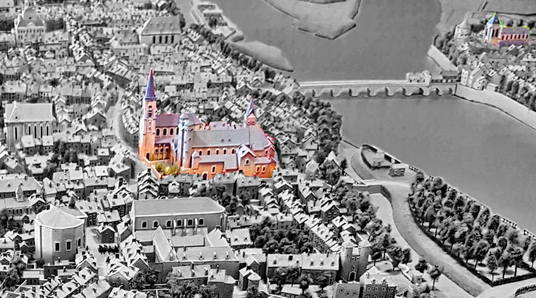 Detail of the Maquette van Maastricht, a copy of the mid-18th-century French scale model of the town and fortifications of Maastricht (Centre Céramique, Maastricht, Netherlands. Hightlighted are buildings that formed part of the Chapter of Our Lady: the collegiate church of Our Lady and the parish churches of Saint Nicolas and Saint Martin.